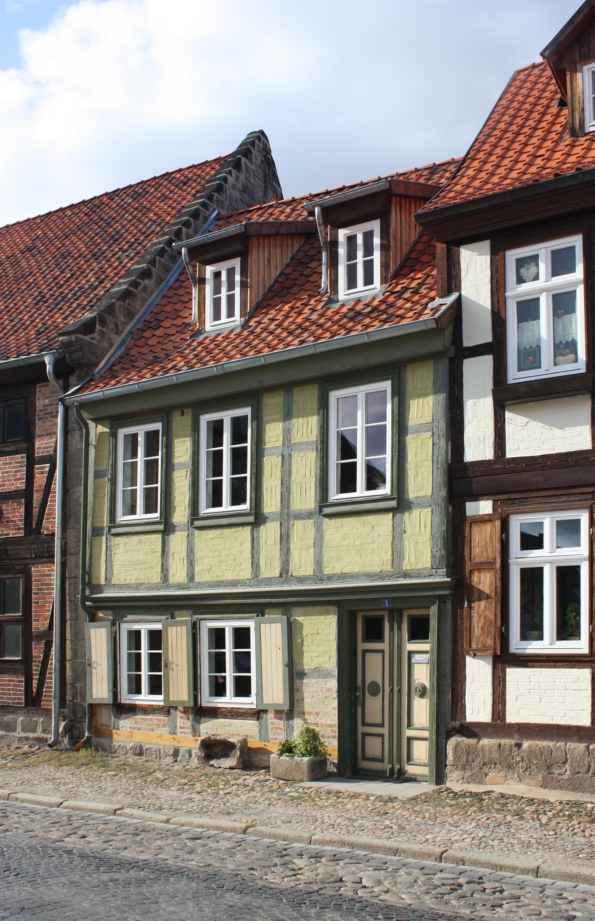 This is a photograph of an architectural monument.It is on the list of cultural monuments of Quedlinburg Augustinern 1 in Quedlinburg